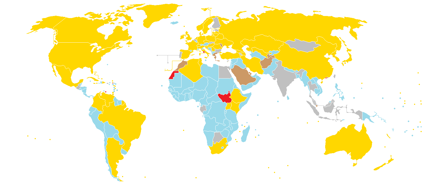 Map of the world showing the achievements of each country during the 2012 Summer Olympics in London, UK. Based on Blank world map Image:BlankMap-World-v5.png. Gold for countries achieving at least one gold medal. Silver for countries achieving at least one silver medal. Brown for countries achieving at least one bronze medal. Blue for countries that did not win a medal. Red for countries/territories that did not participate.